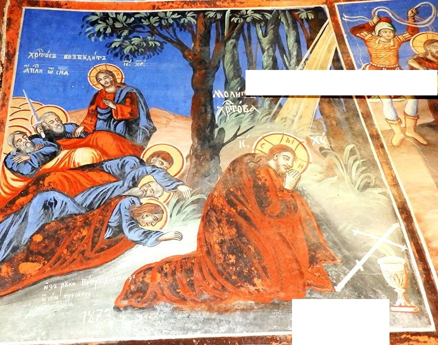 Fresco_in_Saint_Mary_Church_in_Fariš